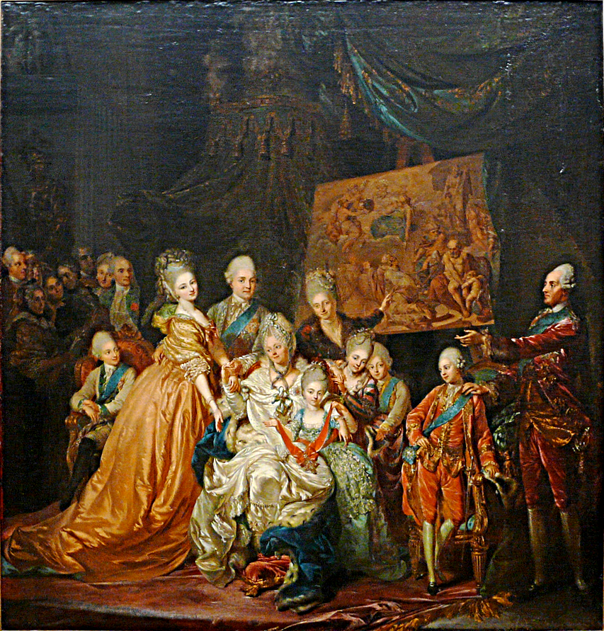 Family of the Prince Xavier of Saxony